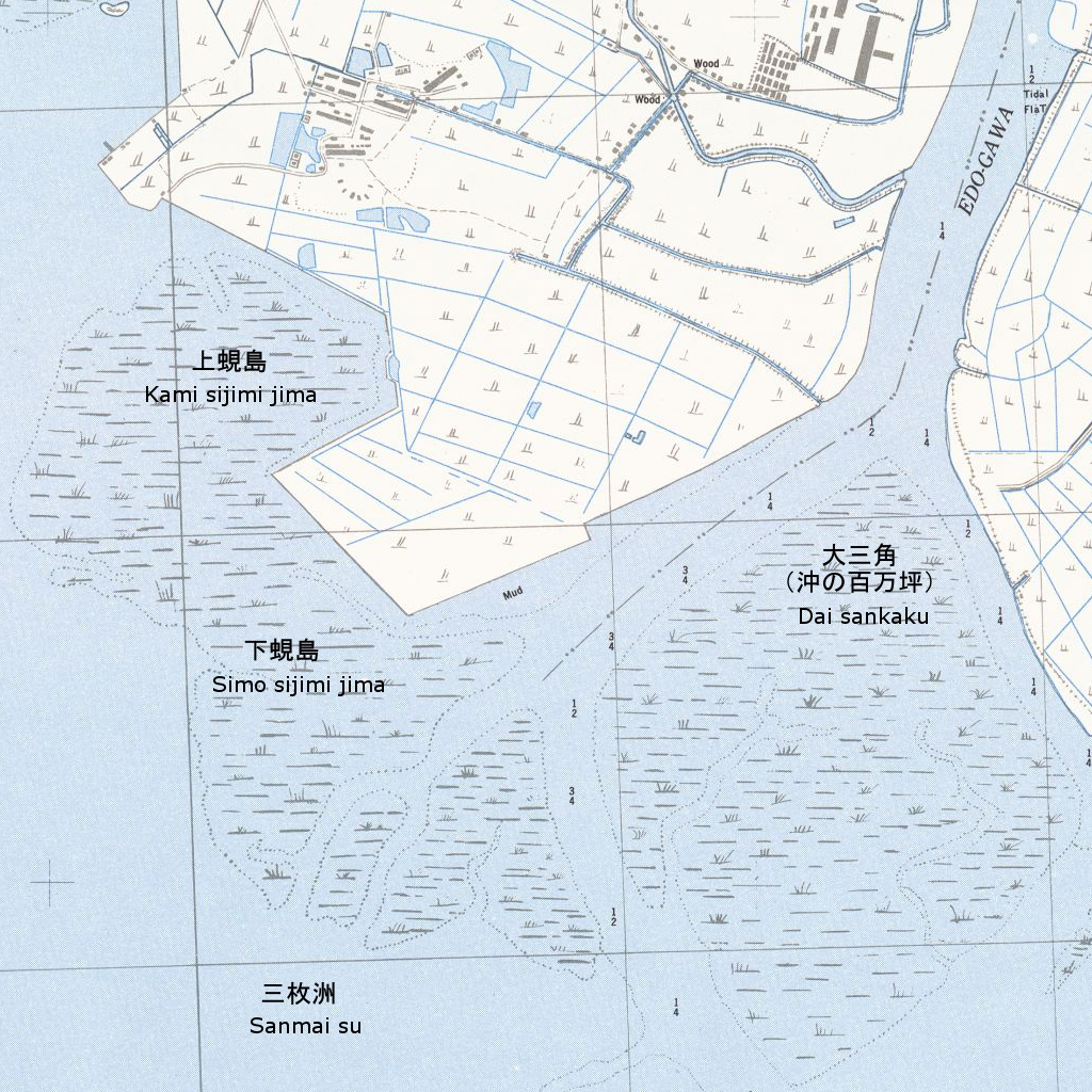 This map shows the river mouth of old Edogawa between Tokyo and Chiba prefecture in 1945. Dai sankaku, Kami sijimi jima, Simo sijimi jima had been filled since 1972.